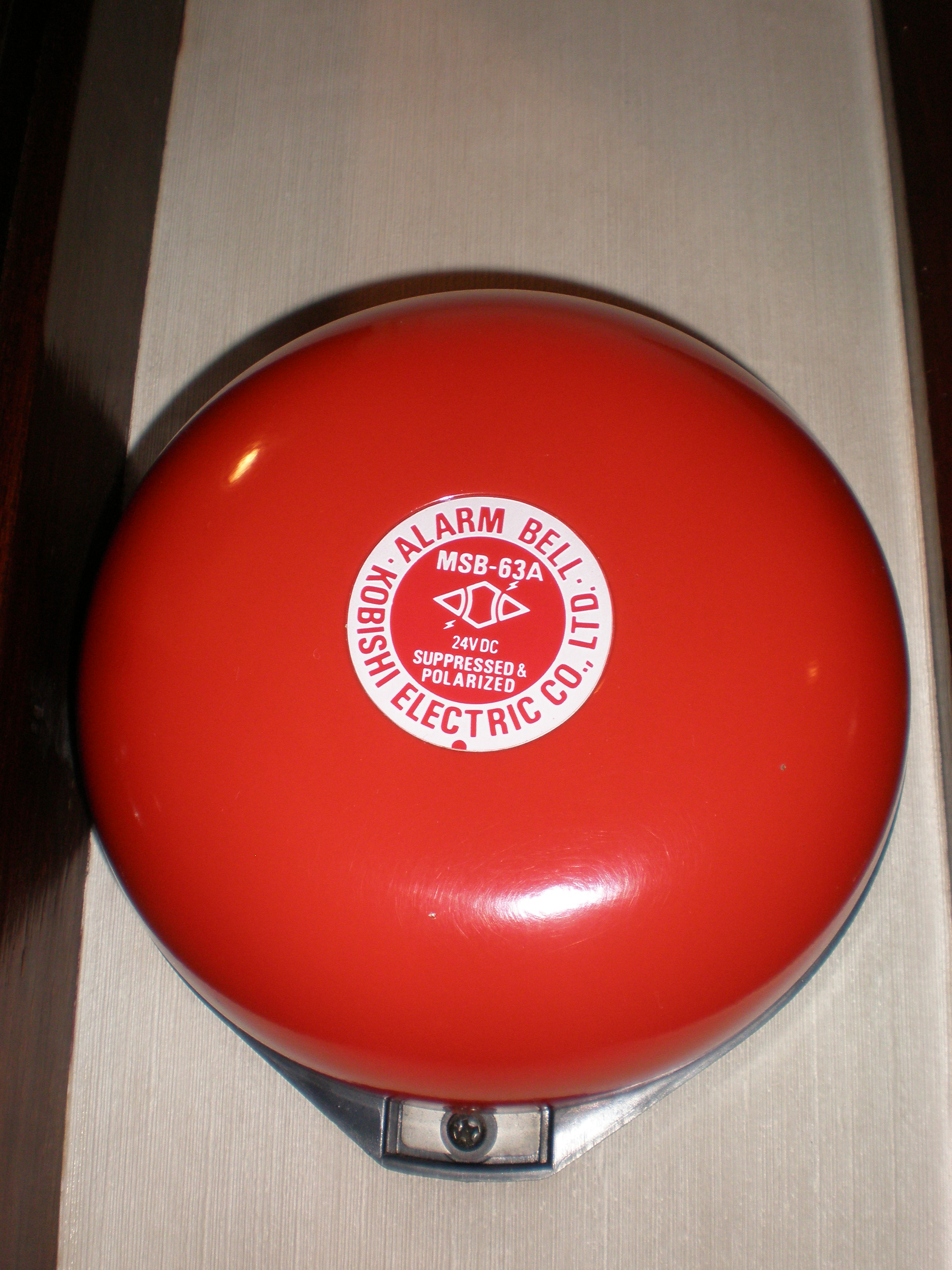 A Kobishi Electric Co. MSB-63A fire alarm bell found in Kowloon, Hong Kong.